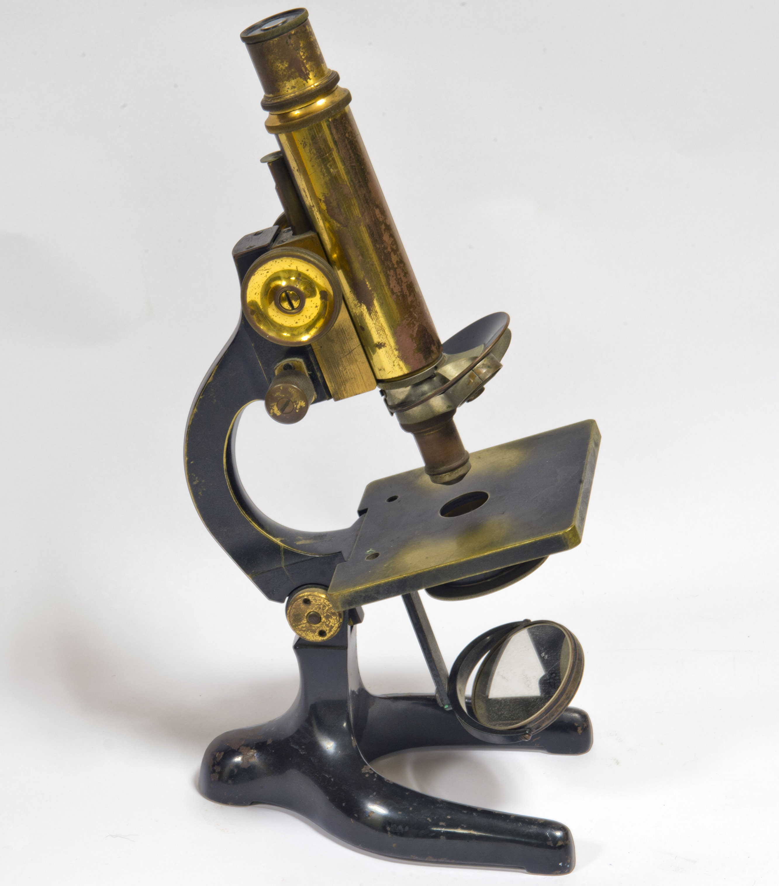 Microscope from the late 19th century, manufactured by the optical firm W & H Seibert in Wetzlar